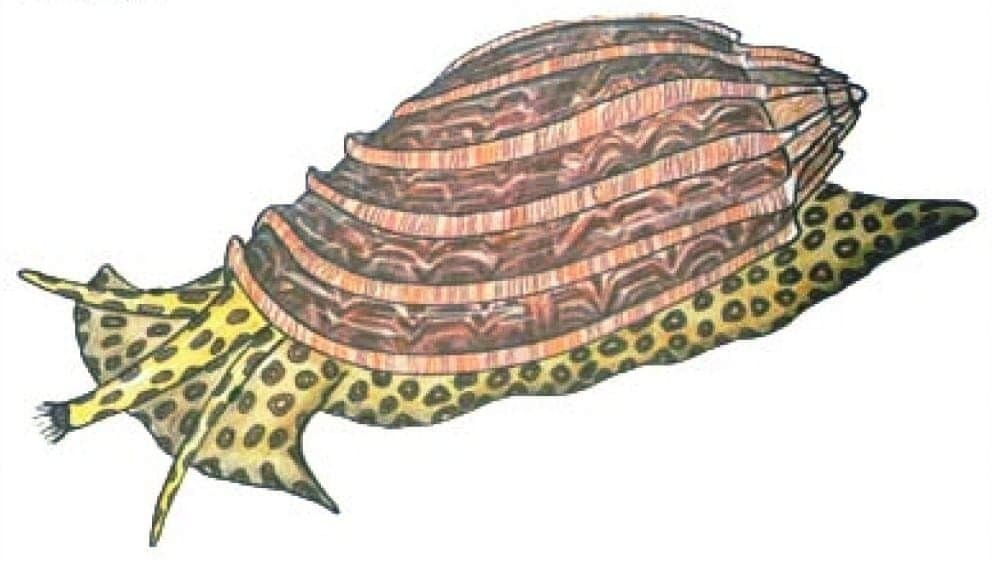 Illustration of Harpa Röding, 1798[1] seashell with the snail.